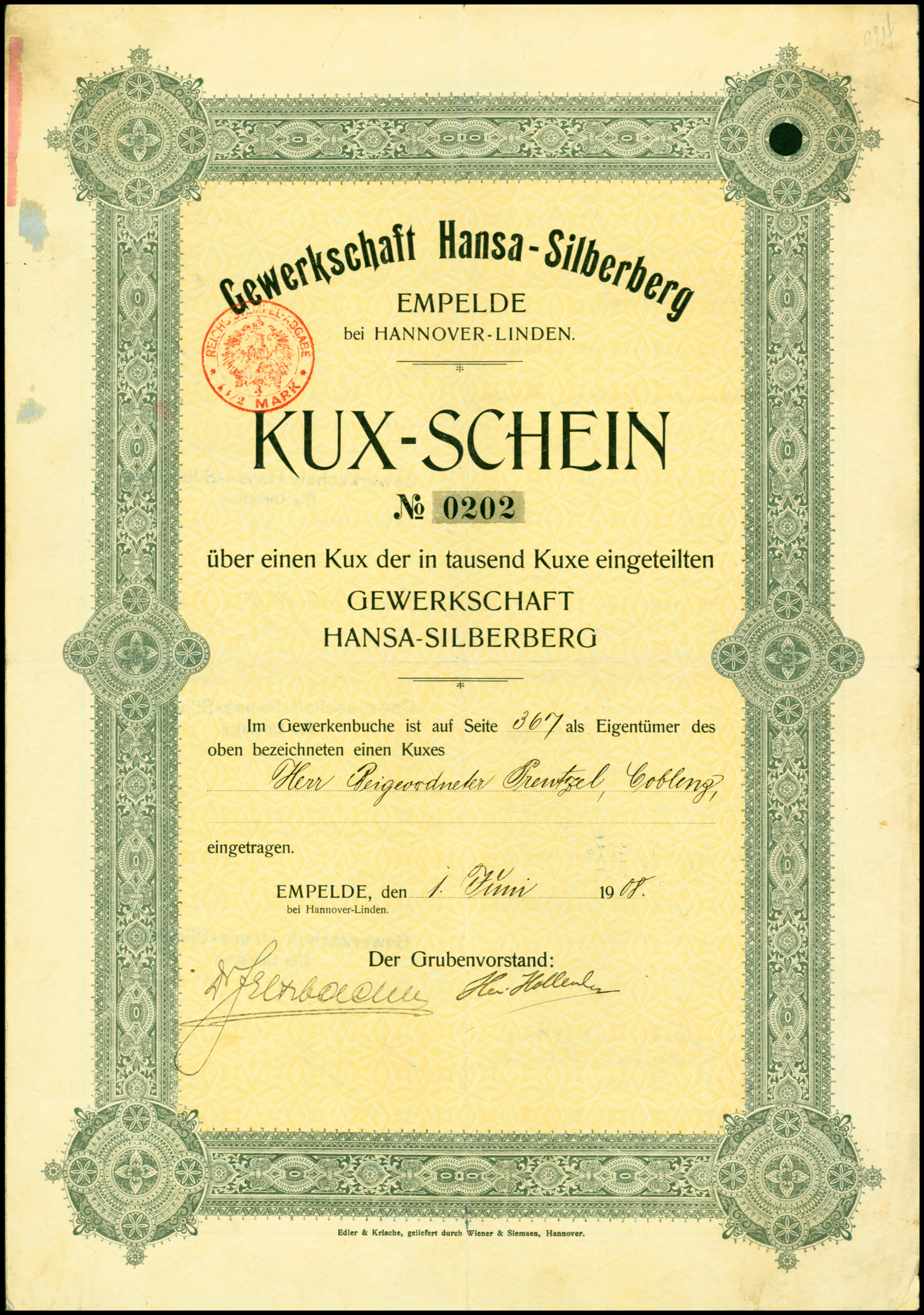 Mining share of the Gewerkschaft Hansa-Silberberg, issued 1. June 1908